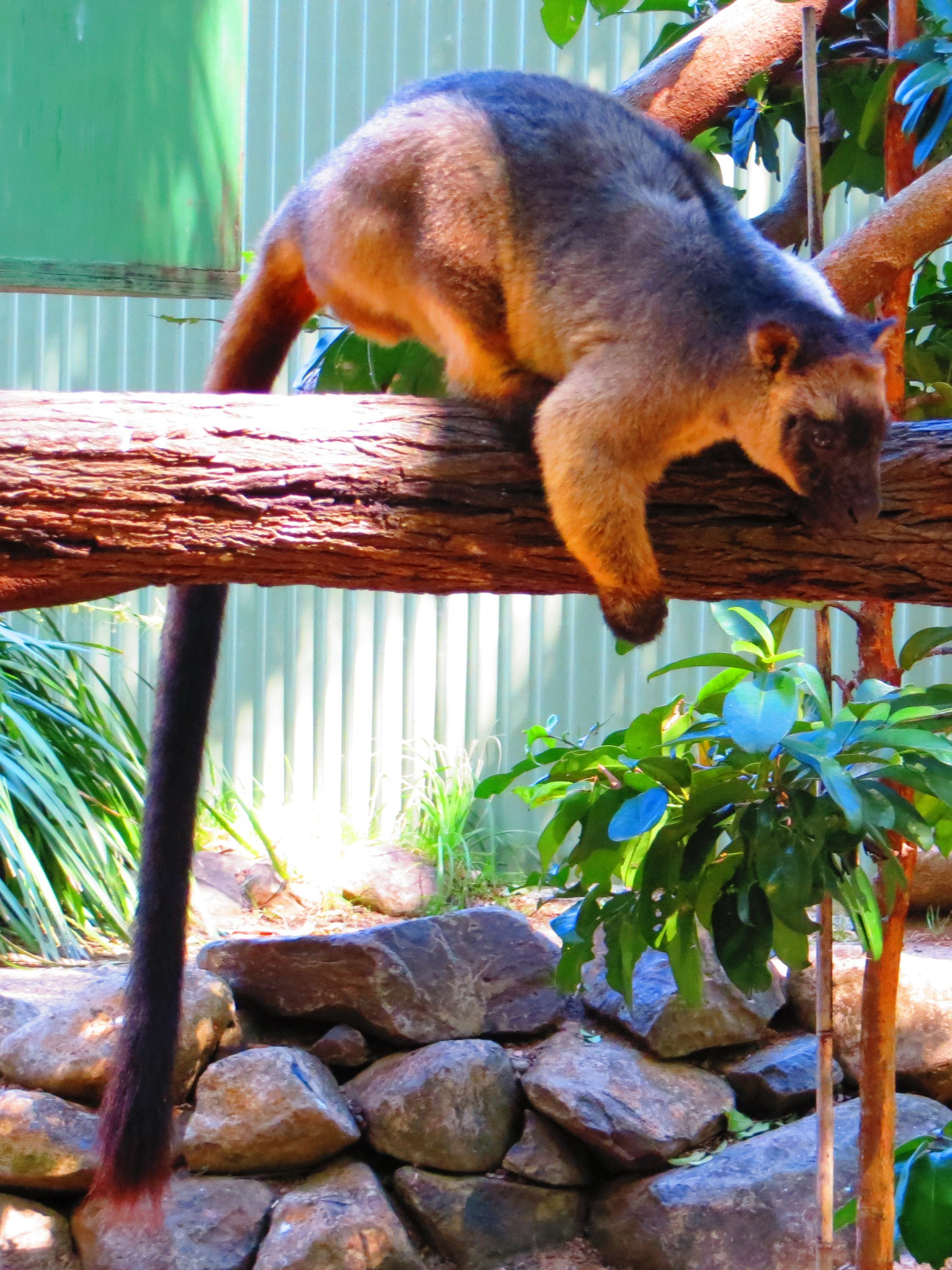 Lumholtz's tree kangaroo (Dendrolagus lumholtzii) at David Fleay Wildlife Park, Burleigh Heads, Queensland.